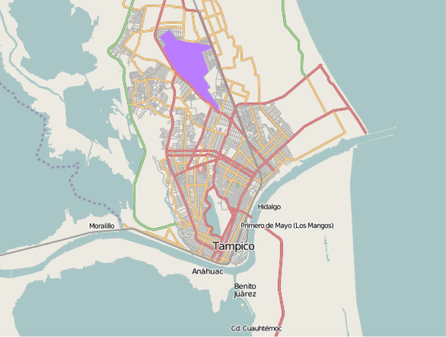 Map of Tampico metro area (primary urban area). This map may be incomplete, and may contain errors. Don't rely solely on it for navigation.